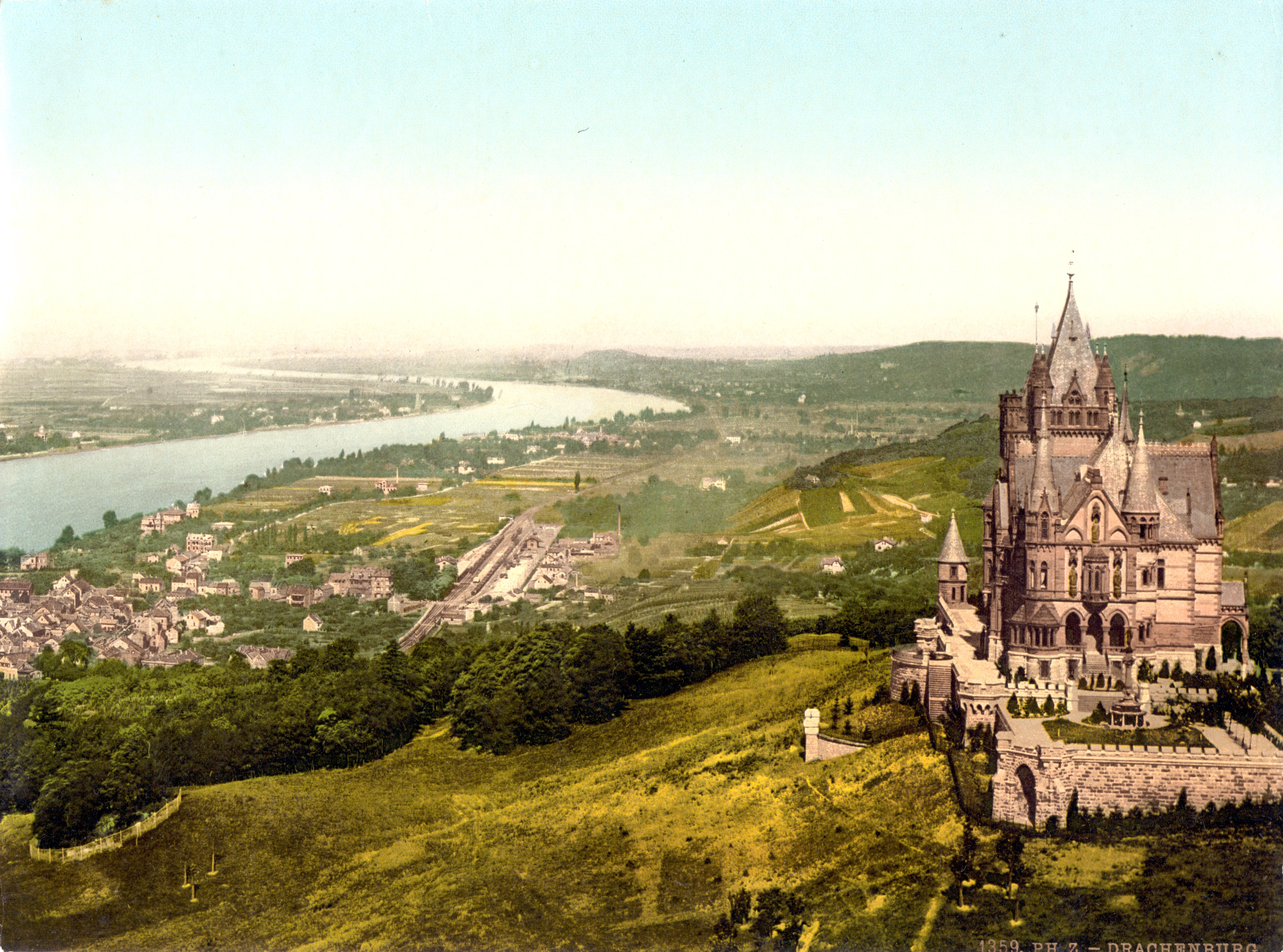 Castle Drachenburg in Königswinter, Germany